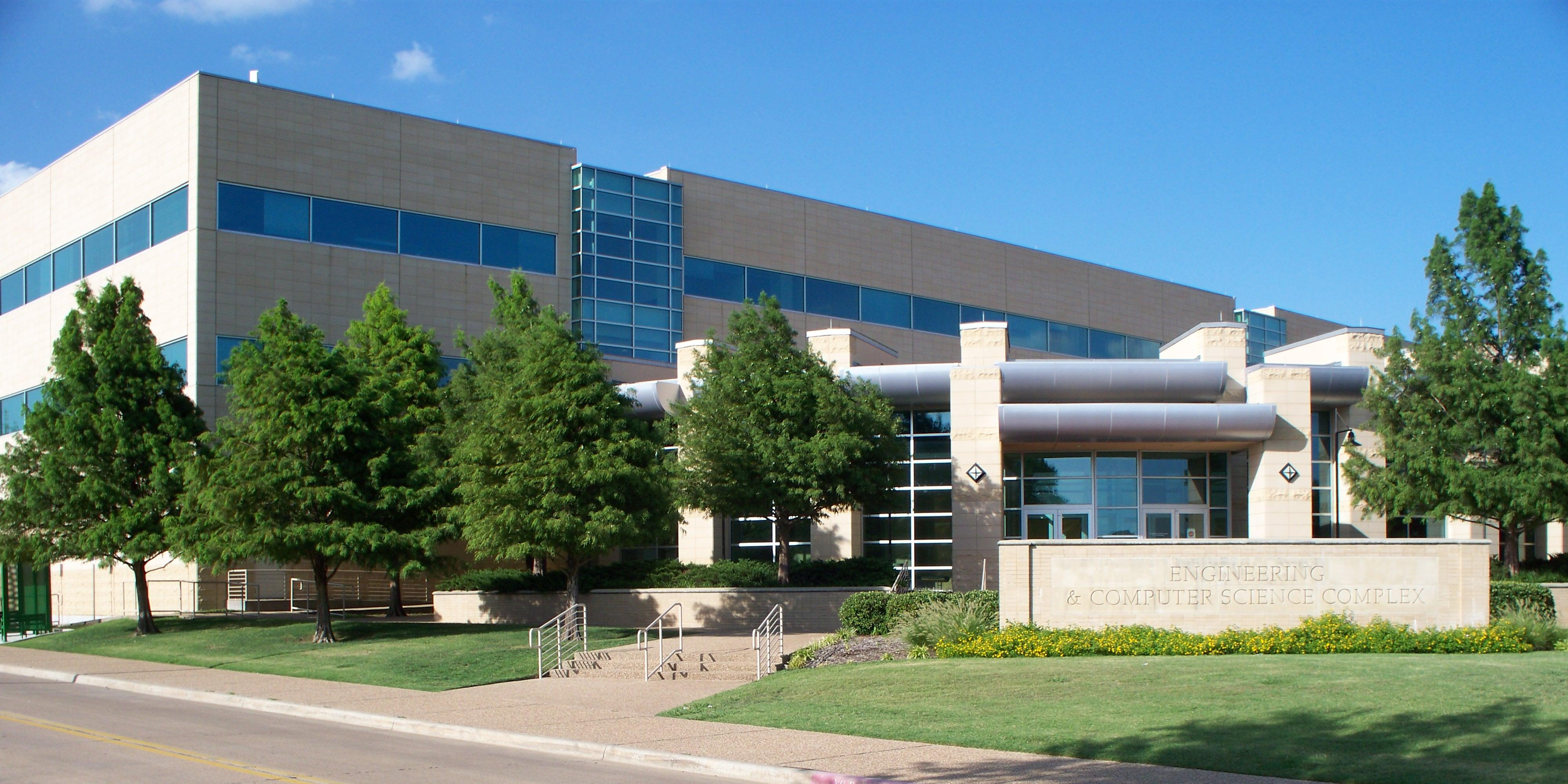 The University of Texas at Dallas 330,000-square-foot Engineering and Computer Science Complex